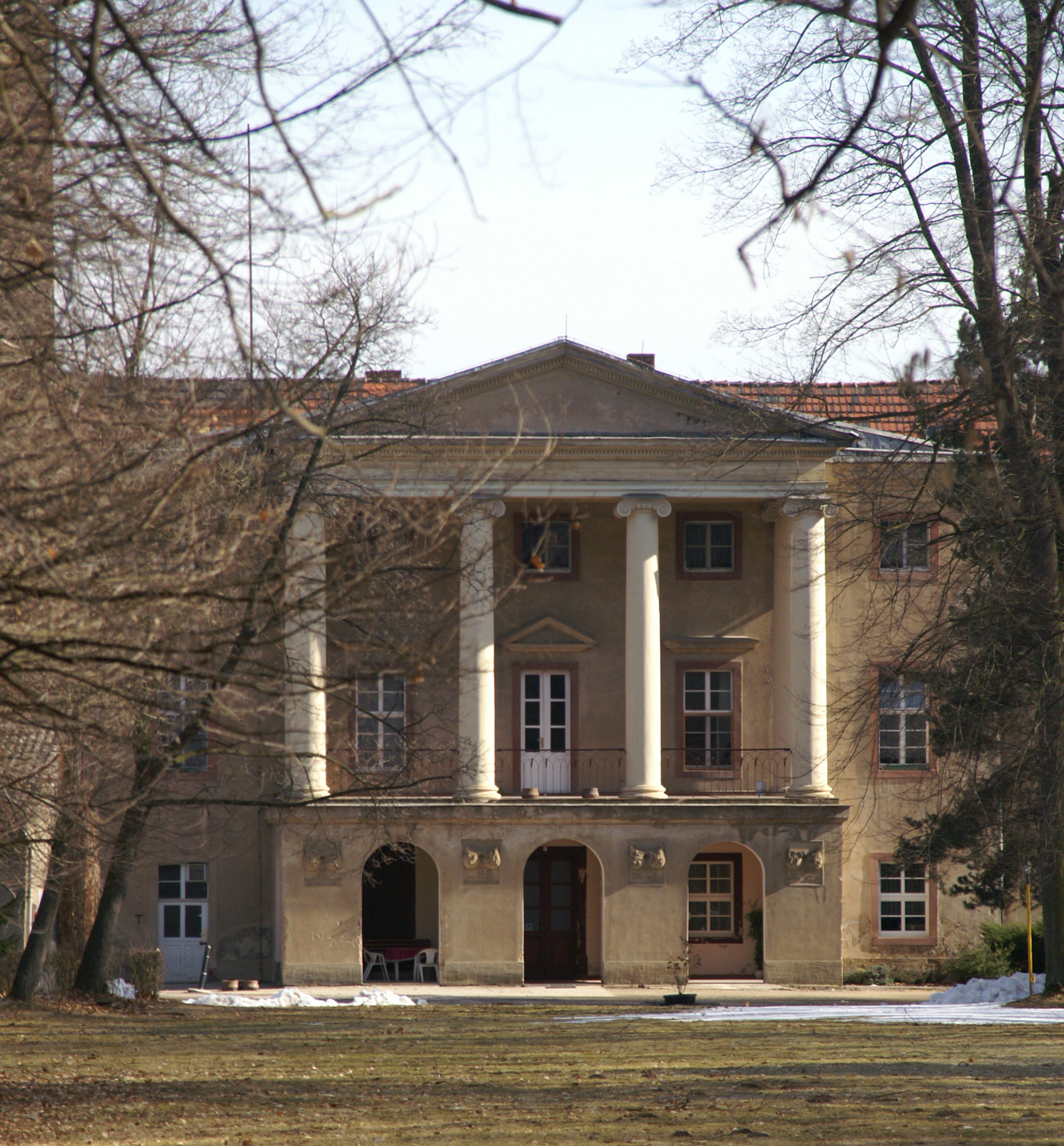 Castle of Löbichau near Ronneburg, Germany.